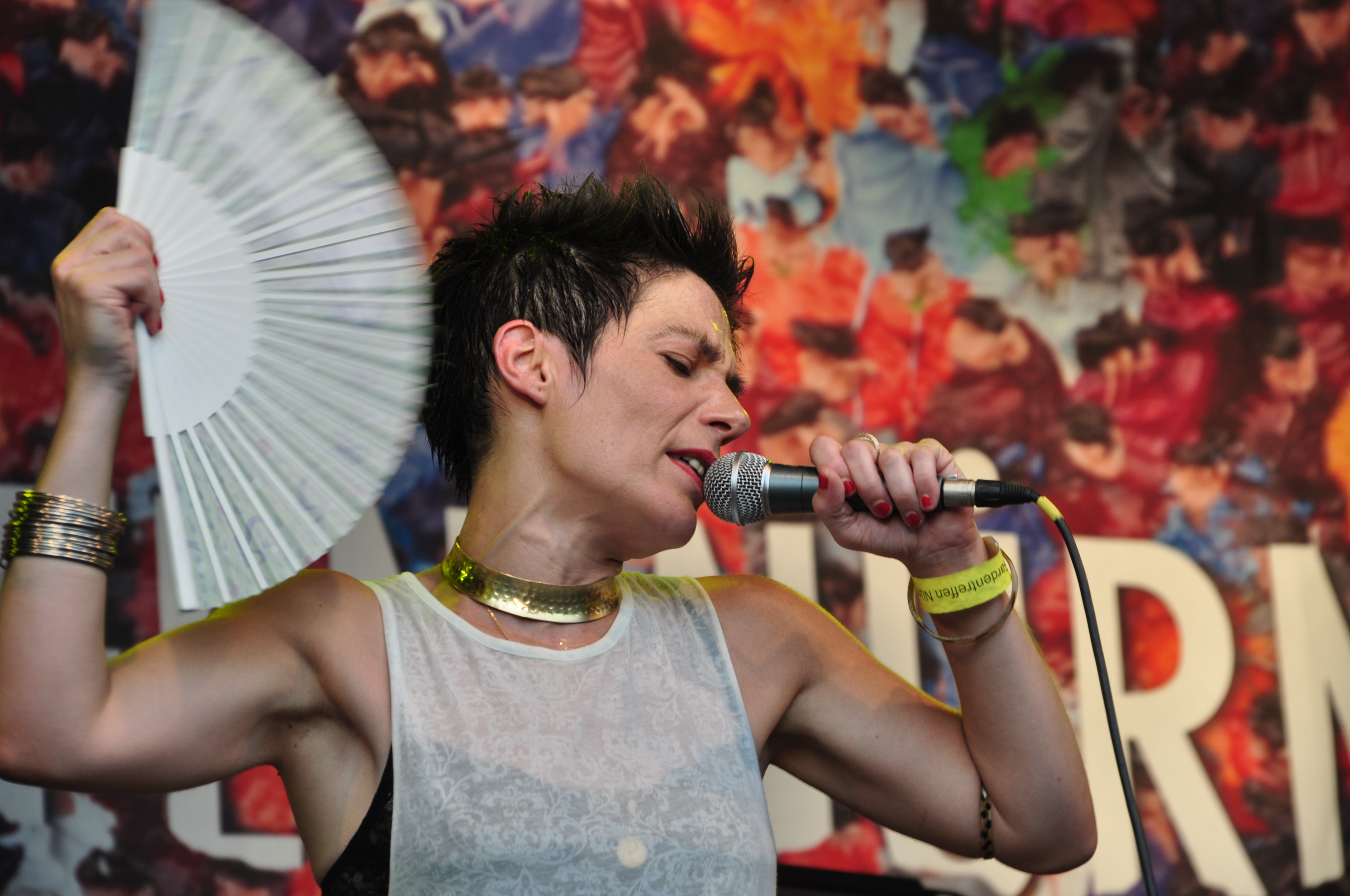 La Shica (Spain), appearance at the 38th music festival "Bardentreffen" 2013 in Nuremberg, Germany, Schuett Isle stage